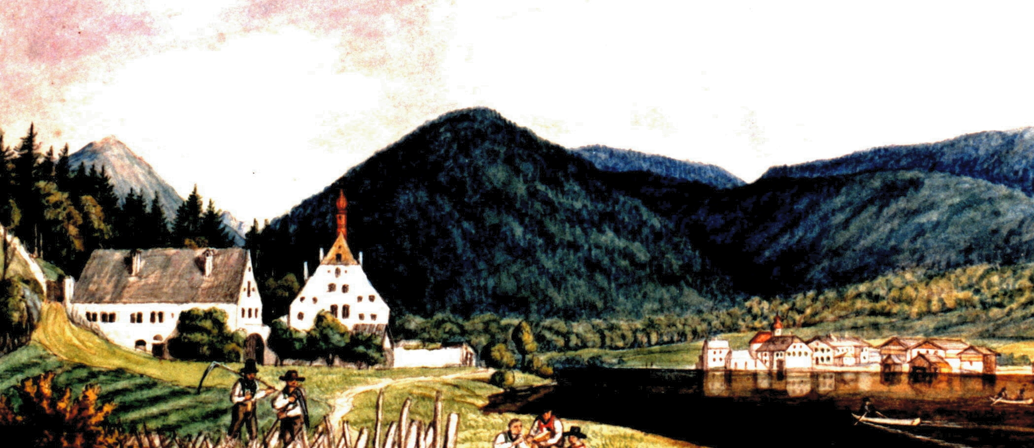 The Klösterle at the borders of the Walchensee